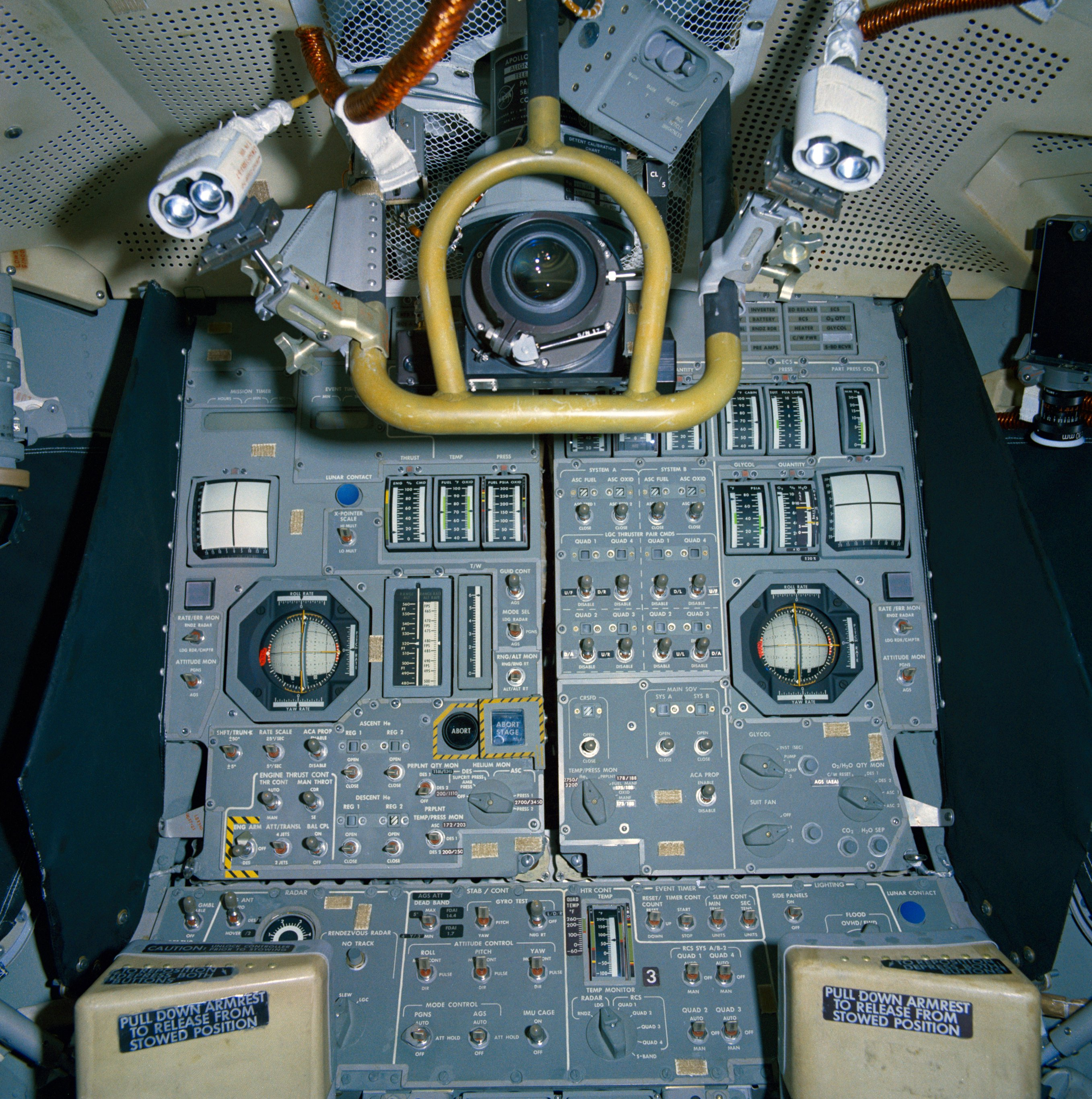 A large group of photographs showing the interior of the Apollo 15 Lunar Module (LM) showing controls and panels. KSC, Cape Kennedy, Florida. Image ID: S71-40761